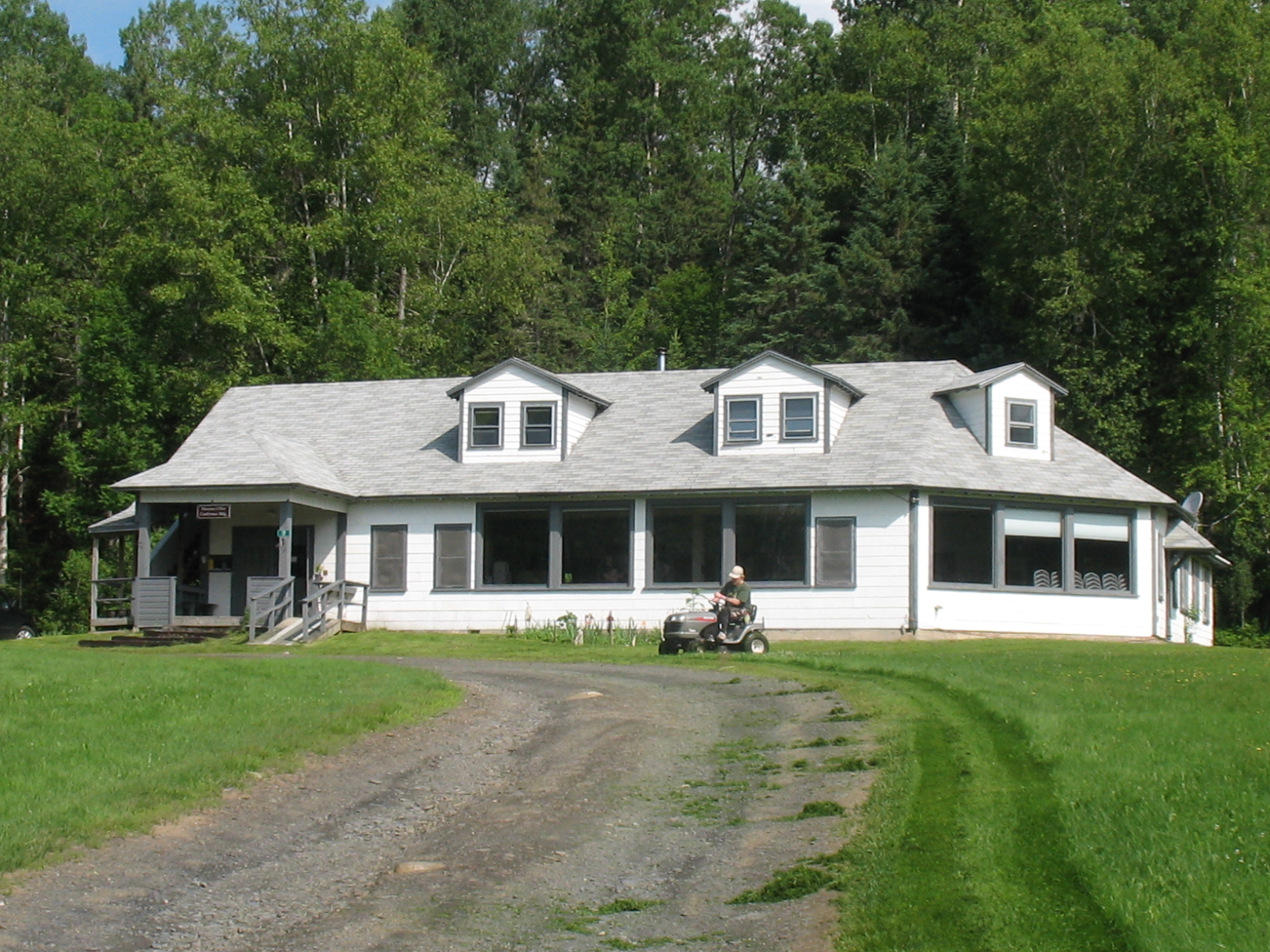 laboratories of Wilhelm Reich, Wilhelm Reich museum